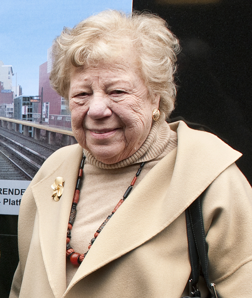 On March 2, 2012, legislators and MTA officials announced plans for the installation of ADA-compliant elevators at the Flushing-Main Street LIRR station. Claire Shulman, former Queens Borough President and current President and CEO of the Flushing Willets Point Corona Local Development Corporation attends the ribbon-cutting ceremony.